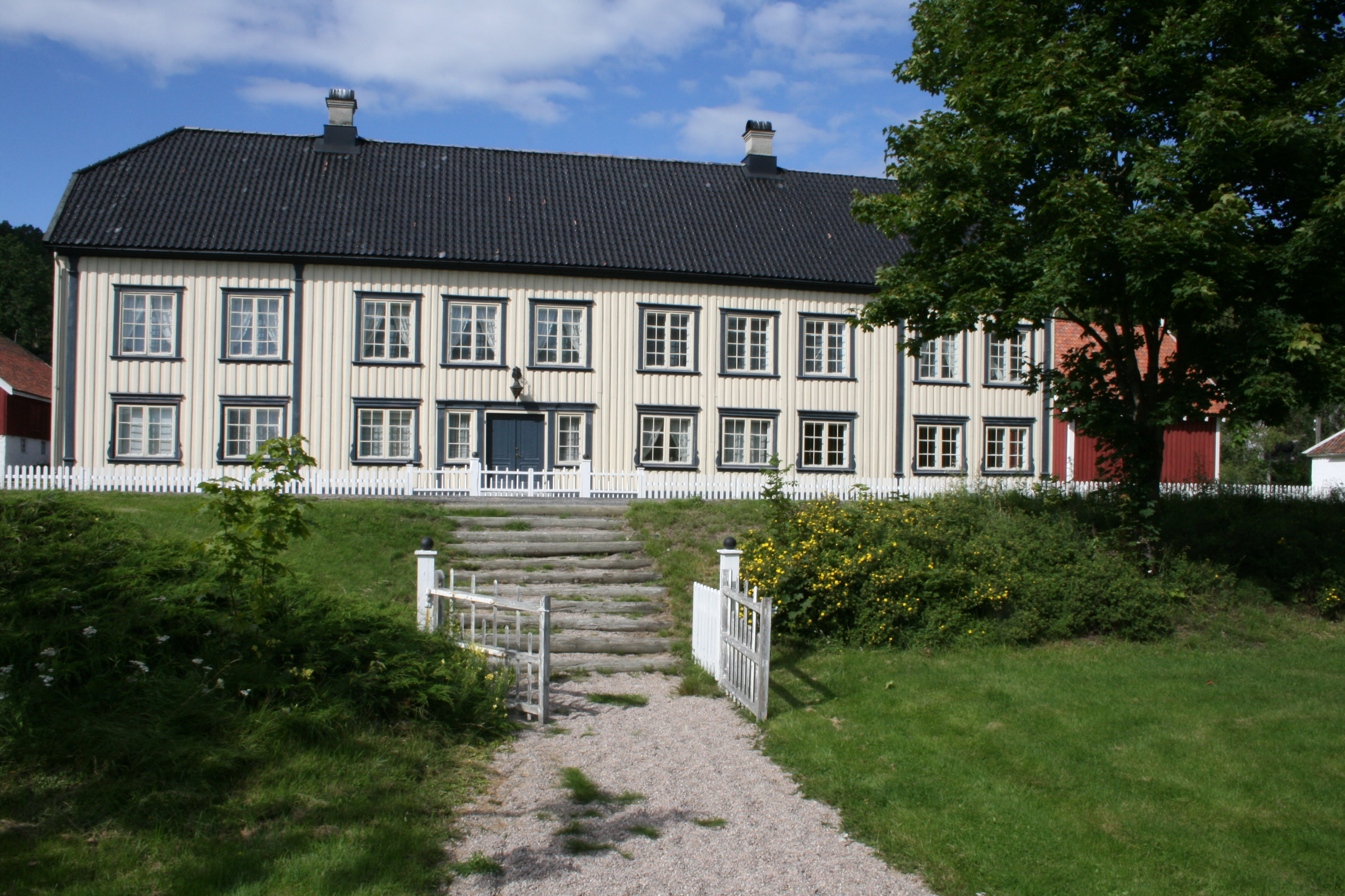 Froland Verk i Aust-Agder